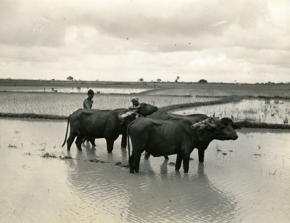 A close-up of water buffalo and rice farmers plowing a rice field near Gushkara, Bengal, 1944